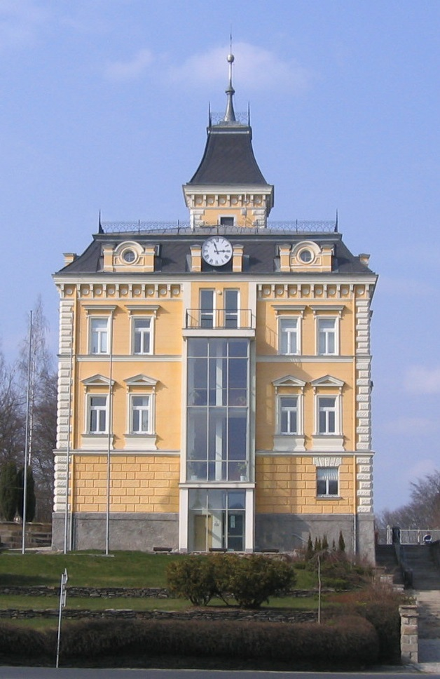 Town hall in Aš, Cheb District, Czech Republic.